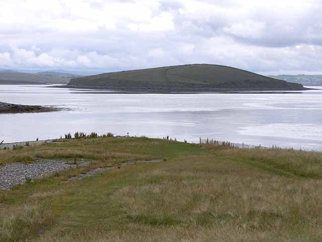 Inishrasher One of the numerous small islands which are in fact drowned drumlins at the head of Clew Bay. The sea has cut cliffs into the boulder clay of the islands.Seen from the tip of Bartraw Strand L9184.